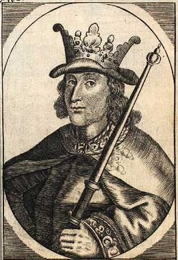 Kong Christoffer 1. (1219-1259). Det Kongelige Bibliotek..